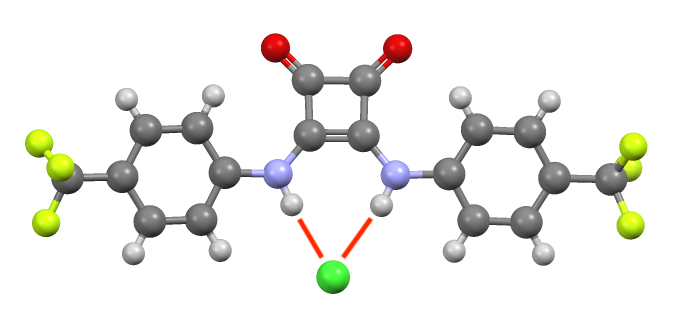 Chloride-squaramide interaction from doi 10.1002/anie.201200729